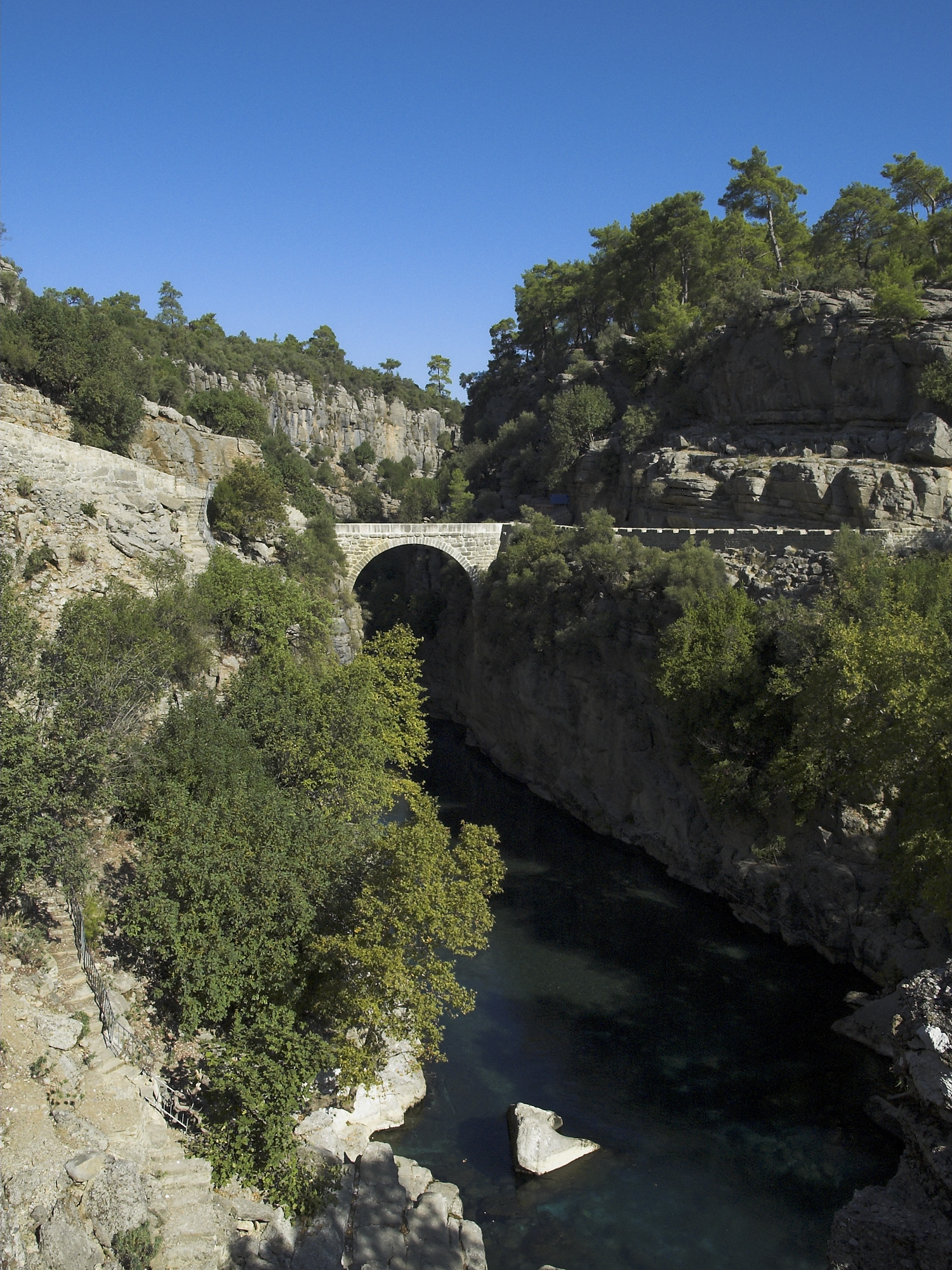 The Eurymedon Bridge (Oluk Köprü) near Selge, Pisidia, Turkey